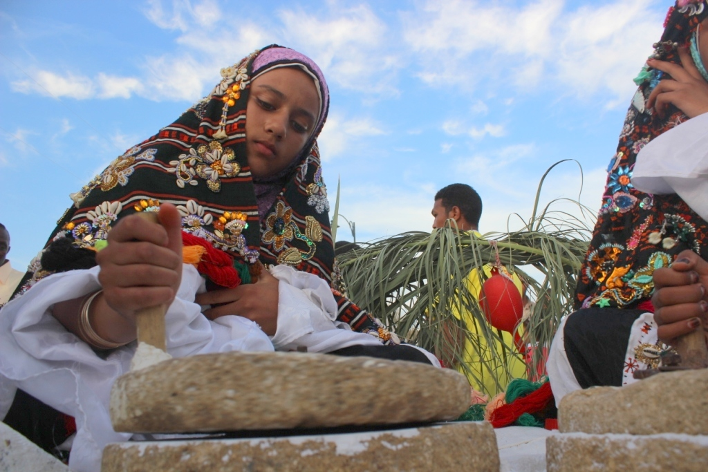 This is an image of Cultural Fashion or Adornment from Egypt